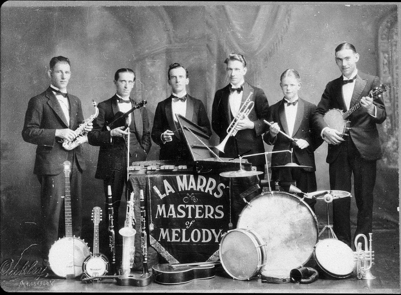 Format: Photograph Find more detailed information about this photograph: .au/item/itemDetailPaged.aspx?itemID=389012 Search for more great images in the State Library's collections: .au/search/SimpleSearch.aspx From the collection of the State Library of New South Wales